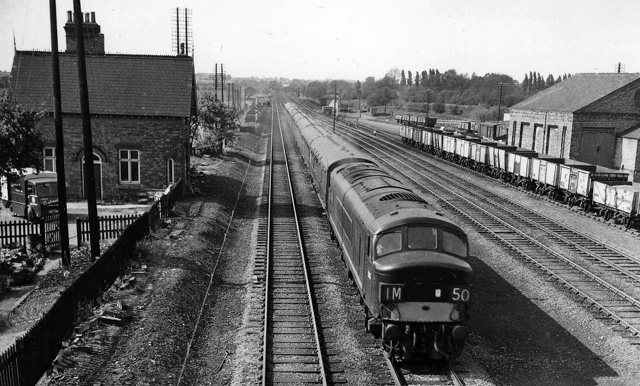 =Site of Burton Latimer Station, with train. View northward, towards Kettering etc.; ex-Midland Main Line, London (St Pancras) - Kettering - Leicester, Notingham, Derby, Sheffield etc. The station had been closed to passengers on 20/11/50, but was still open for goods (until 4/5/64). An Up express speeds by, headed by a Type 4 Peak class Diesel; the Slow lines are on the right.